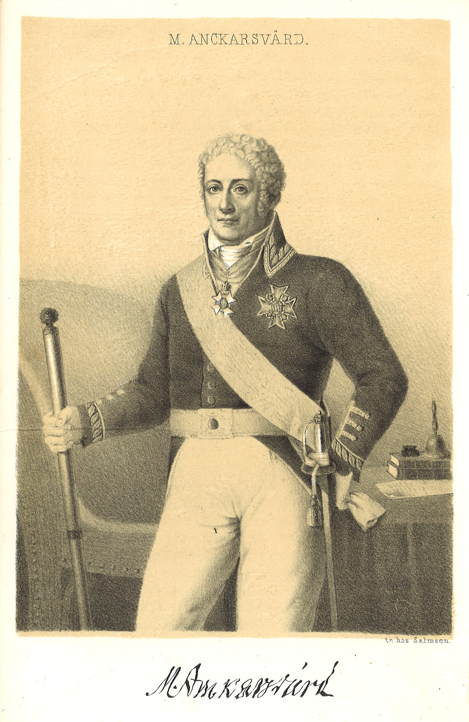 Michael Anckarsvärd (1742-1838), Swedish count, officer, civil servant and "lantmarskalk" (chairman of the estate of nobility).